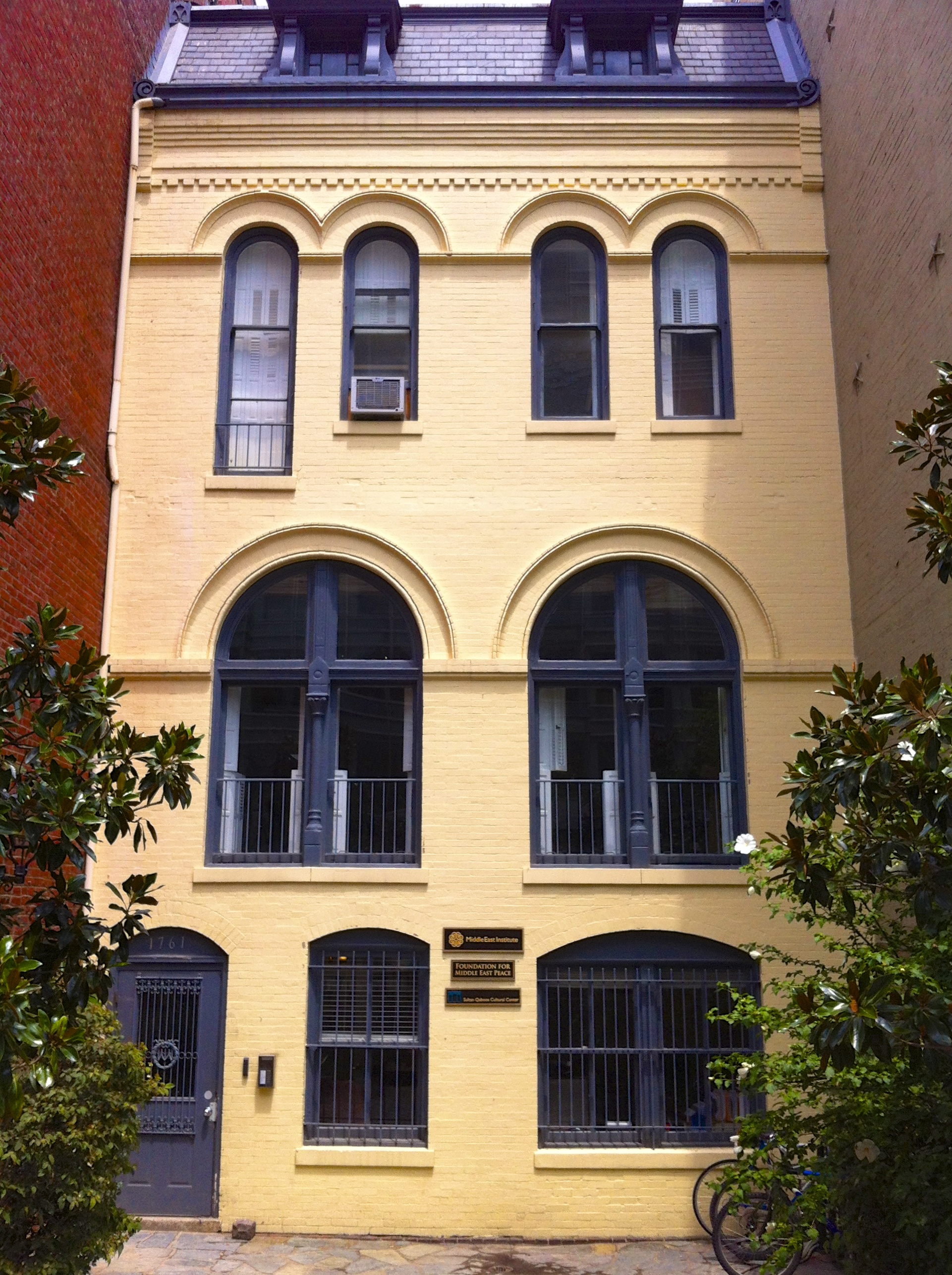 This file shows the Middle East Institute Building on 17th and N street in Washington, D.C.. It will be used at the Institute's Wikipedia page at